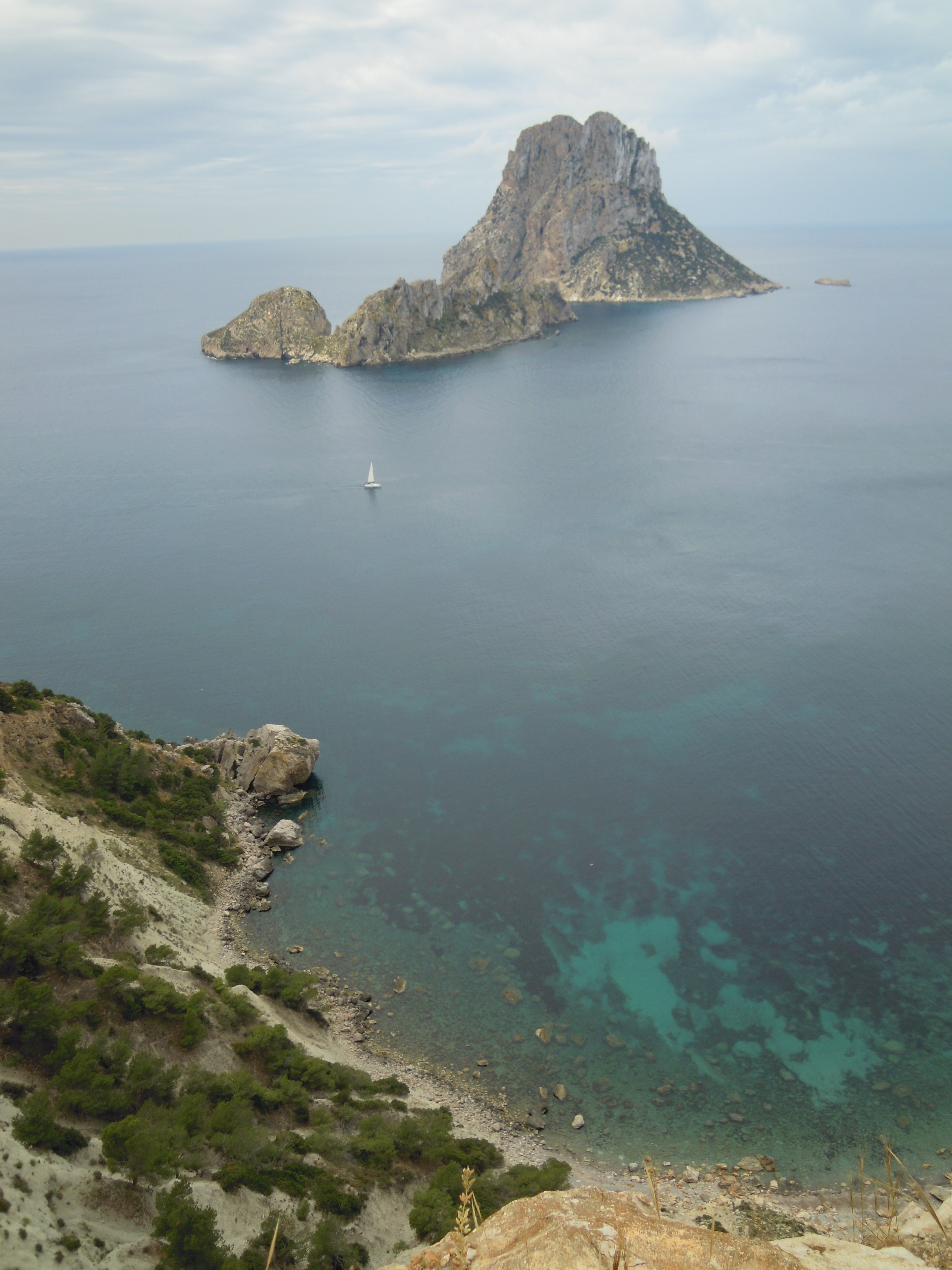 Photograph looking down to the pebbly beach below Cap Blanc